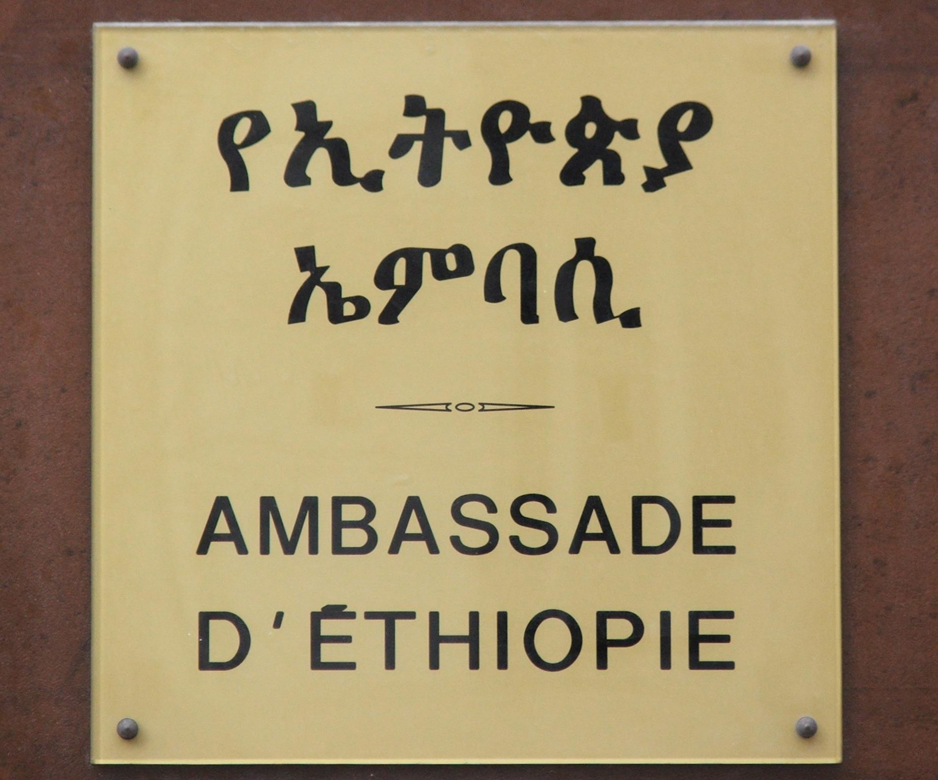 Embassy of Ethiopia in Paris - France.